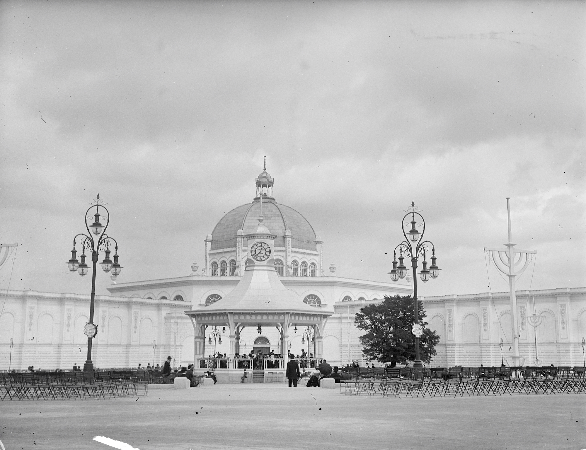 A sight none of us will have seen in Herbert Park, Dublin. Thanks to all for the information on the temporary pavilion that was built for the 1907 "Irish International Exhibition". Especially to [/photos/gnmcauley/ Niall] for highlighting the Wikipedia article on the exhibition (and why the park is so named), [/photos/91590691@N05/ Dún Laoghaire Micheál] for the momentary guffaw on more recent "temporary" Dublin builds, [/photos/129555378@N07/ Sharon] for pointing us to the other images from the event, and [/photos/79549245@N06/ DannyM8] for the Archiseek article and map which helped us locate our map pin a little more accurately. Photographers: Dillon Family Contributors: Luke Gerald Dillon, Augusta Caroline Dillon Collection: Clonbrock photographic Collection Date: Circa 1907 NLI Ref: CLON579 You can also view this image, and many thousands of others, on the NLI’s catalogue at